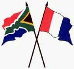 See Image:SouthAfricaFlagTwoNations.jpg